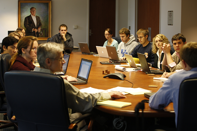 University of Virginia School of Law, SCOTUS clinic